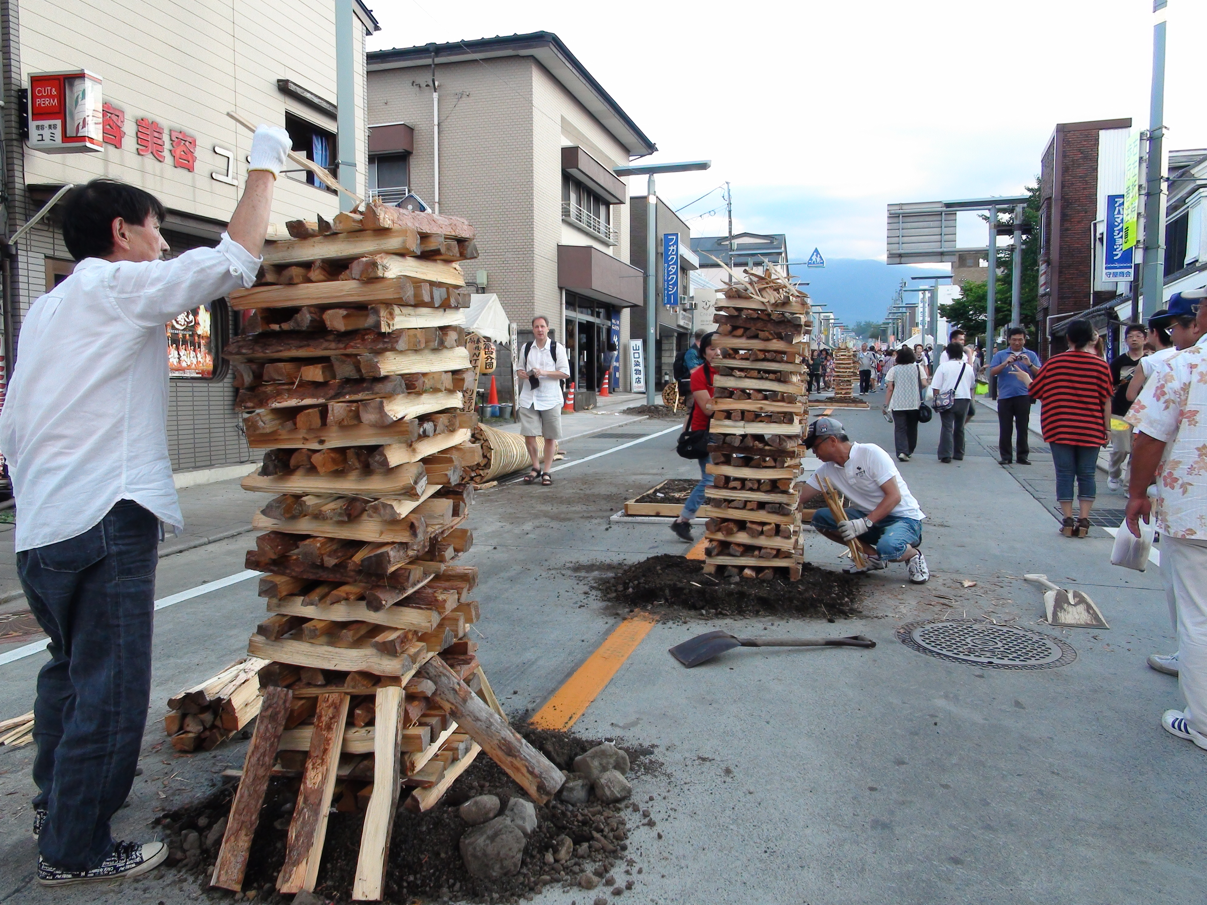 Yoshida Fire Festival Igeta torches